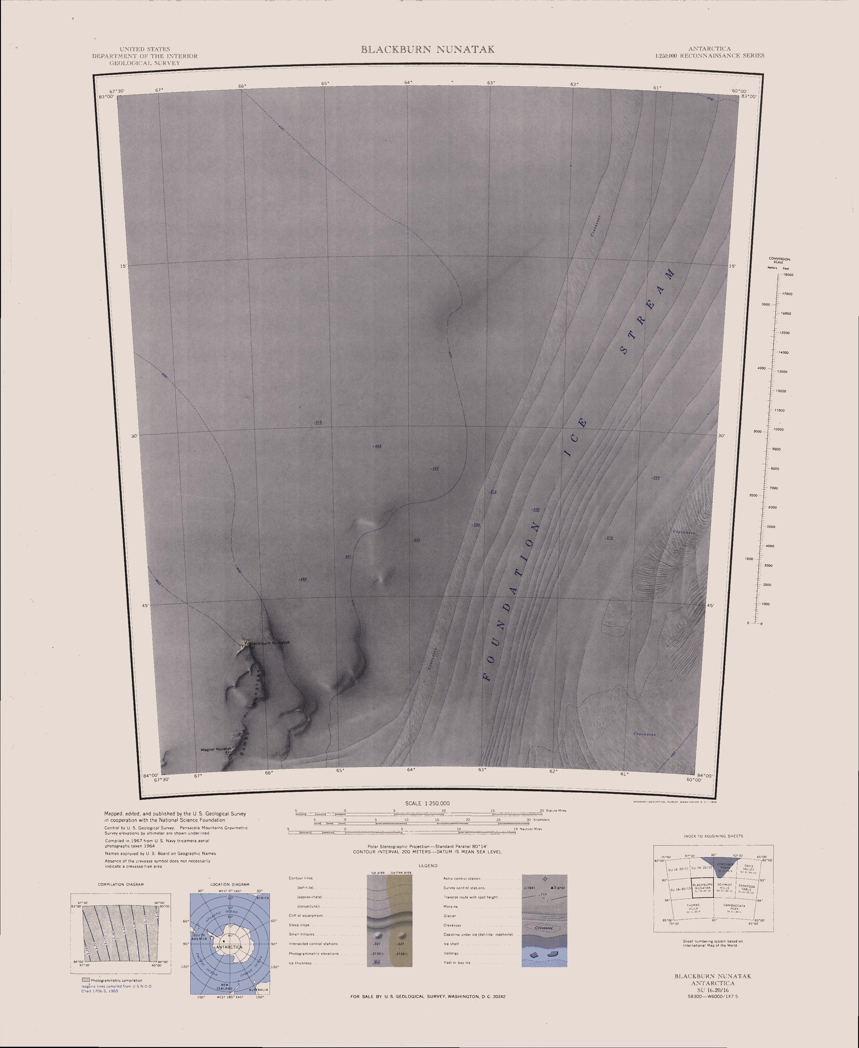 1:250,000-scale topographic reconnaissance map of the Blackburn Nunatak area from 60°-67'30'W to 83°-84°S in Antarctica. Mapped, edited and published by the U.S. Geological Survey in cooperation with the National Science Foundation.